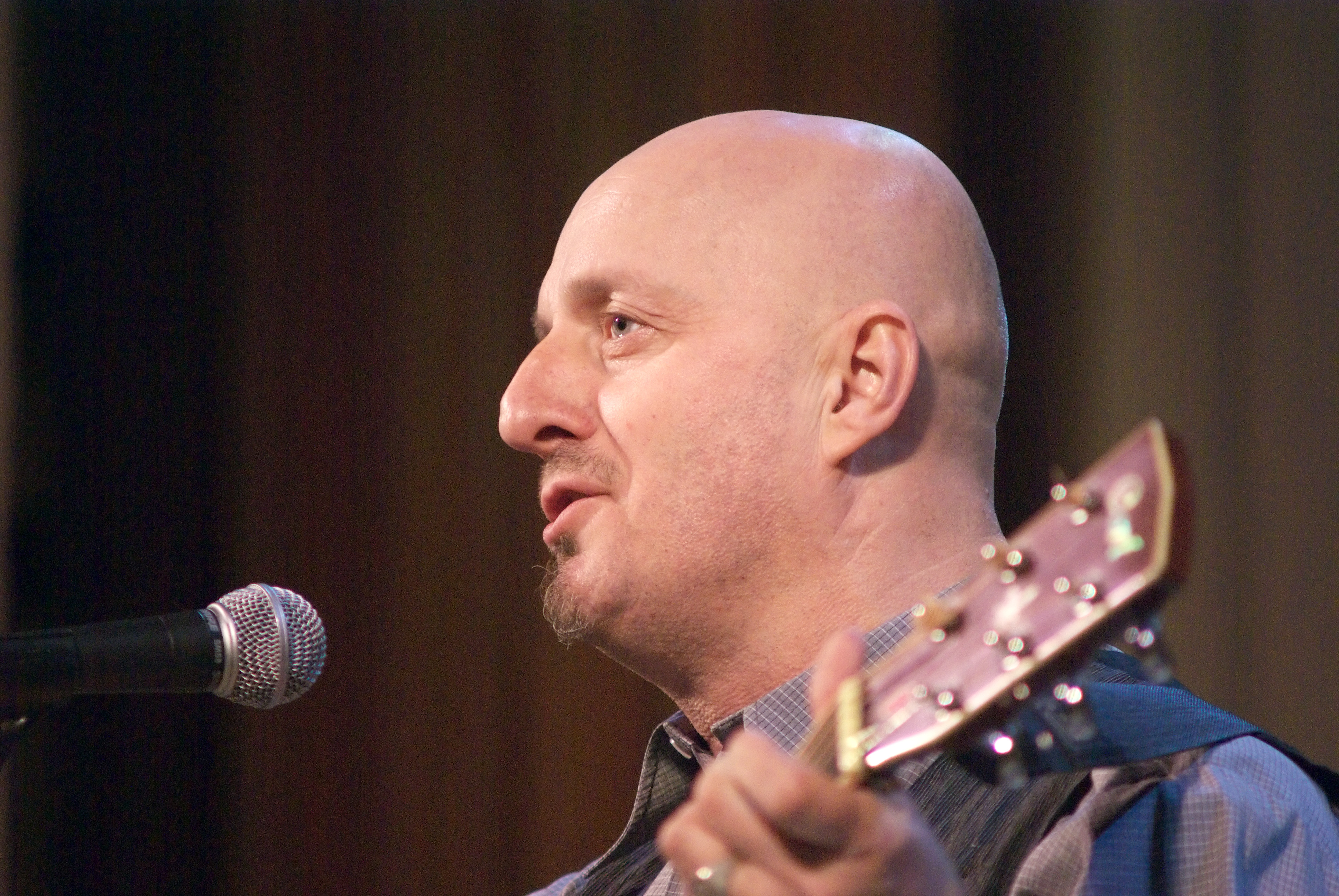 Viktar Shalkevich